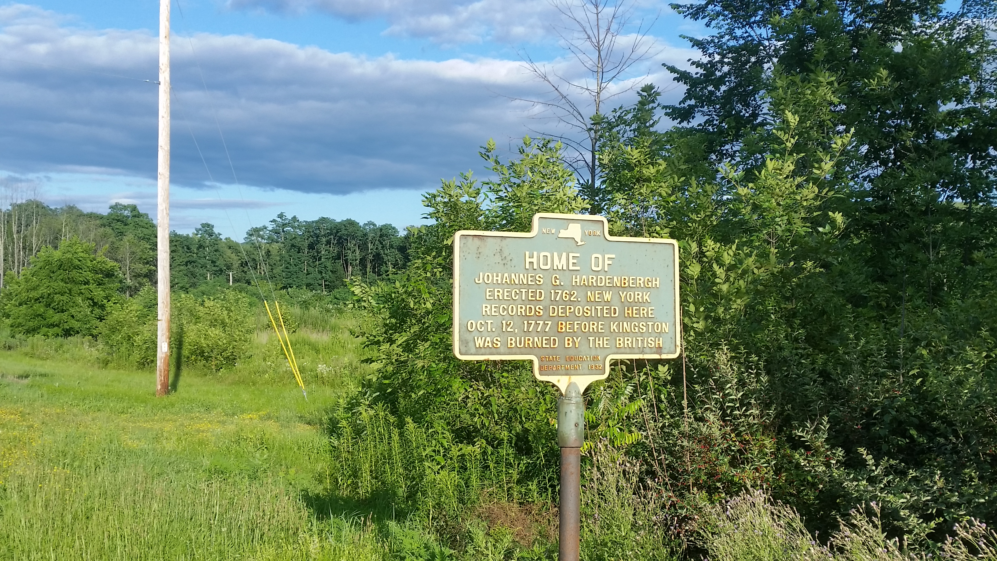 NY State historical marker for the site of the home of Johannes Hardenbergh